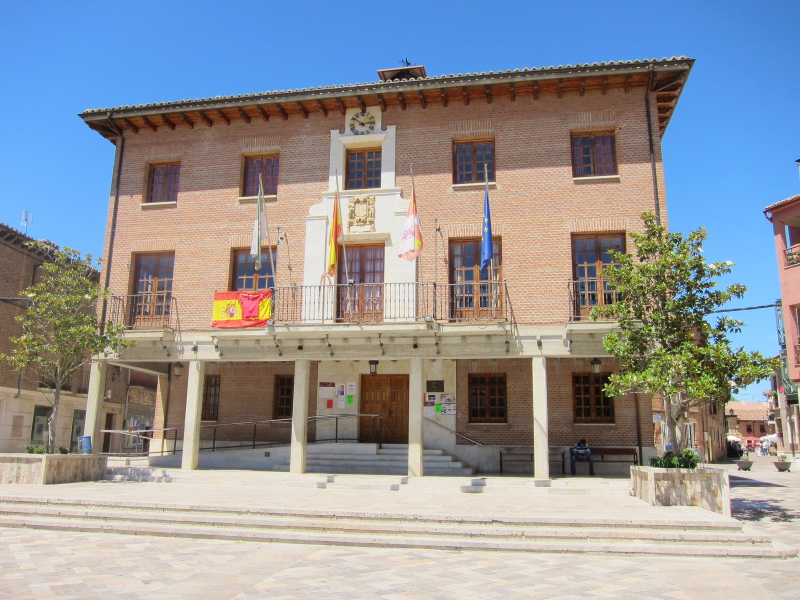 Town hall of Saldaña (Palencia, Castile and León).